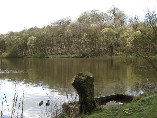 Cumberledge Pool, Deep Hayes Country Park Cumberledge is the lower, and largest pool, at Deep Hayes. The light colouration of the trees on the far side is Pussy Willow